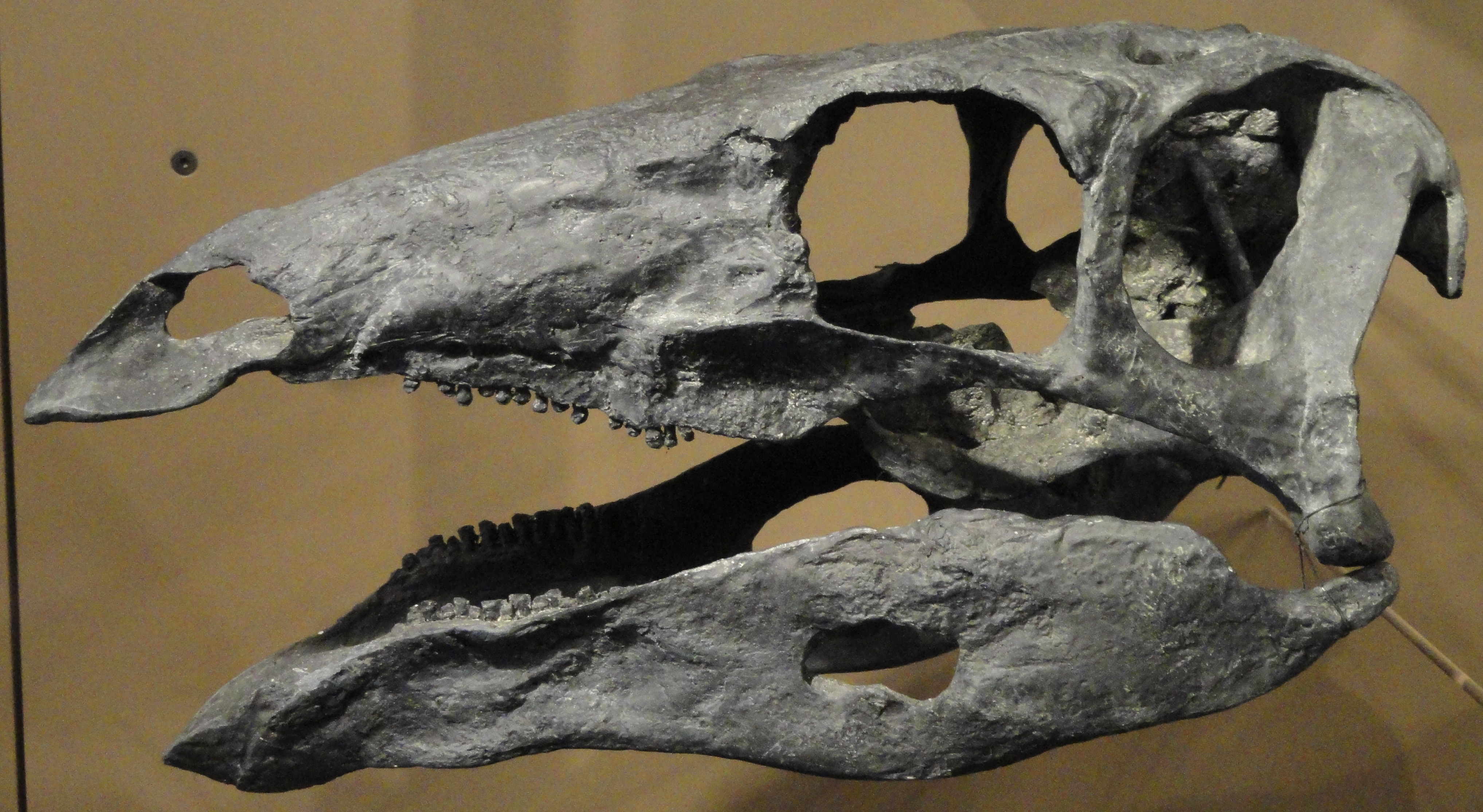 Fossil specimen in the Natural History Museum of Utah, Salt Lake City, Utah, USA.